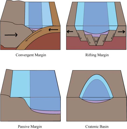 Illustration of salt deposition environments